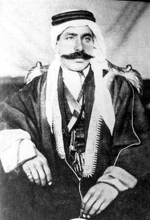 Sultan Pasha al-Atrash (1885-1982), Commander of the Syrian Revolution of 1925-1927